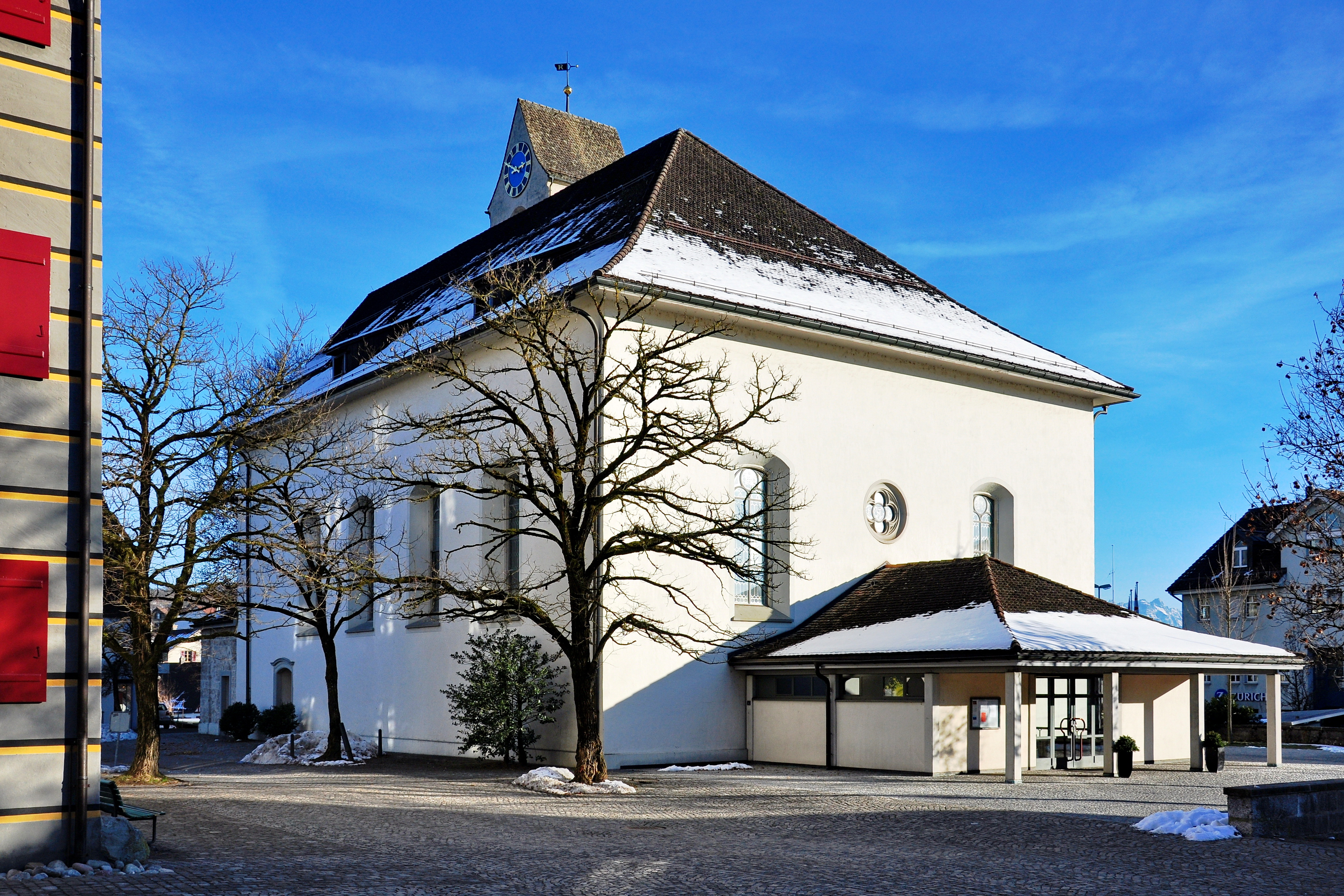 Rüti (Switzerland) : Former Rüti Abbey, as of today the Protestant church.